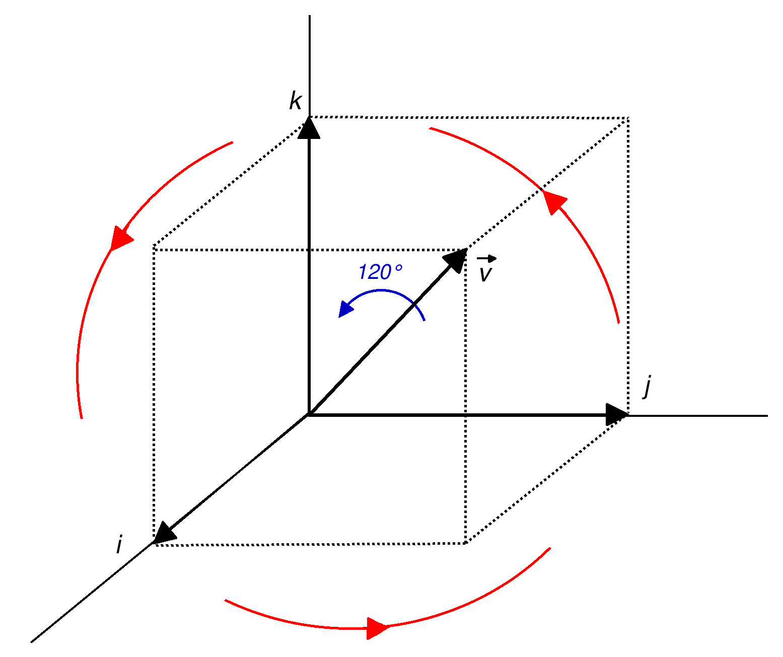 This is my own work to illustrate the article "quaternions and spatial rotation" It shows a rotation of 120° around the first diagonal in the 3D space. Red arrows show that i is rotated into j, j into k, and k into i.